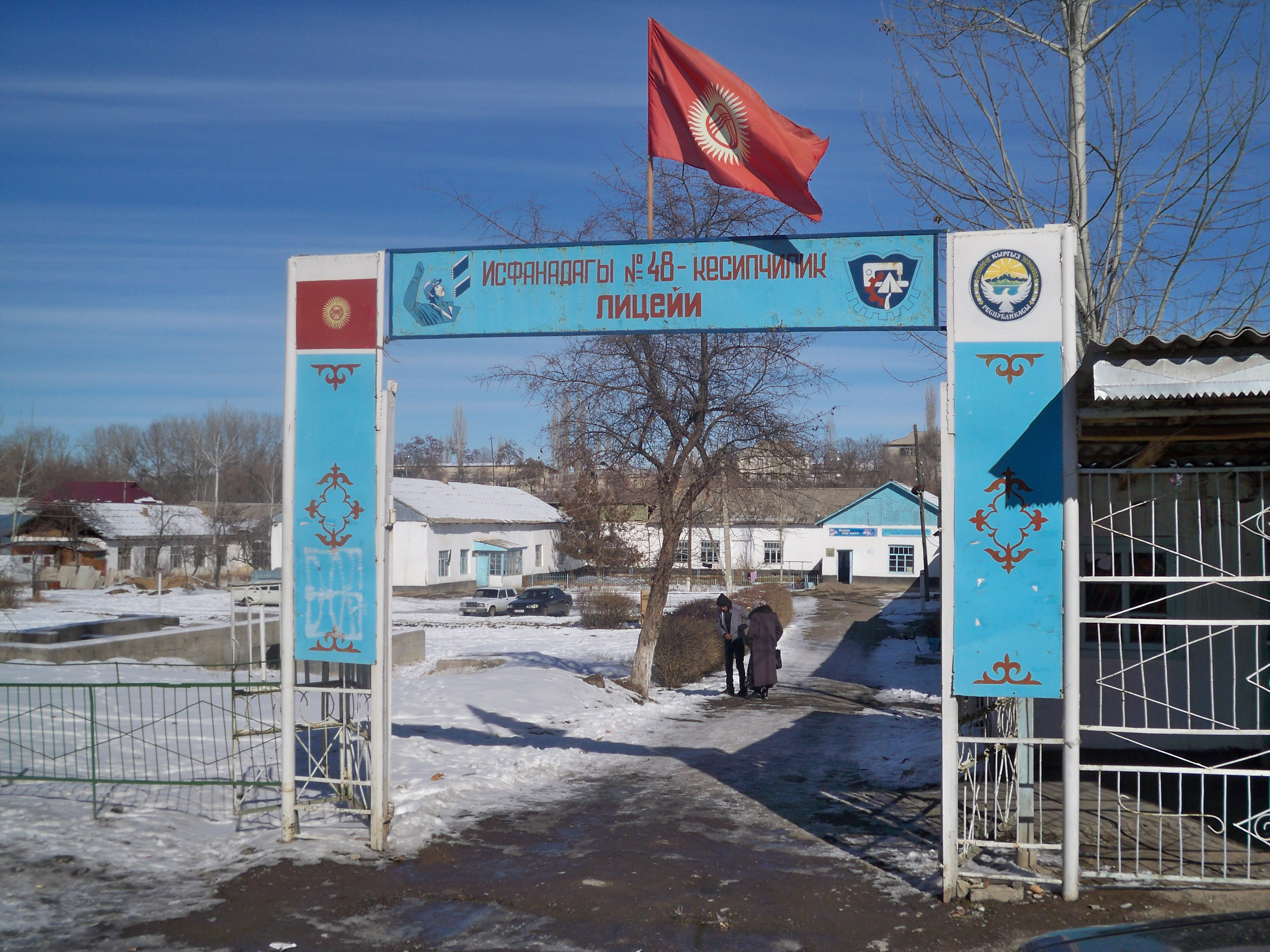 The main entrance to Vocational School No. 48. Isfana, Kyrgyzstan.